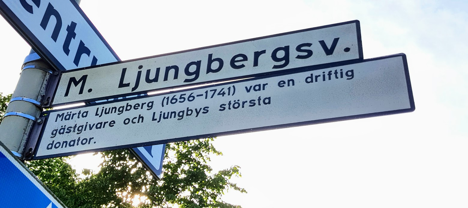 Street sign of Märta Ljungbergsvägen (